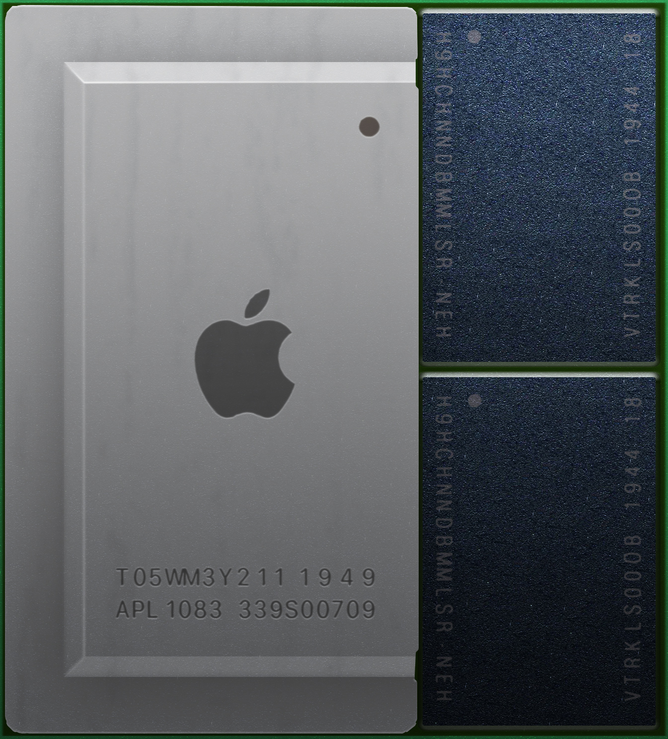 Illustration of the Apple A12Z system-on-a-chip. Inspiration from a picture posted by EverythingMacPro here